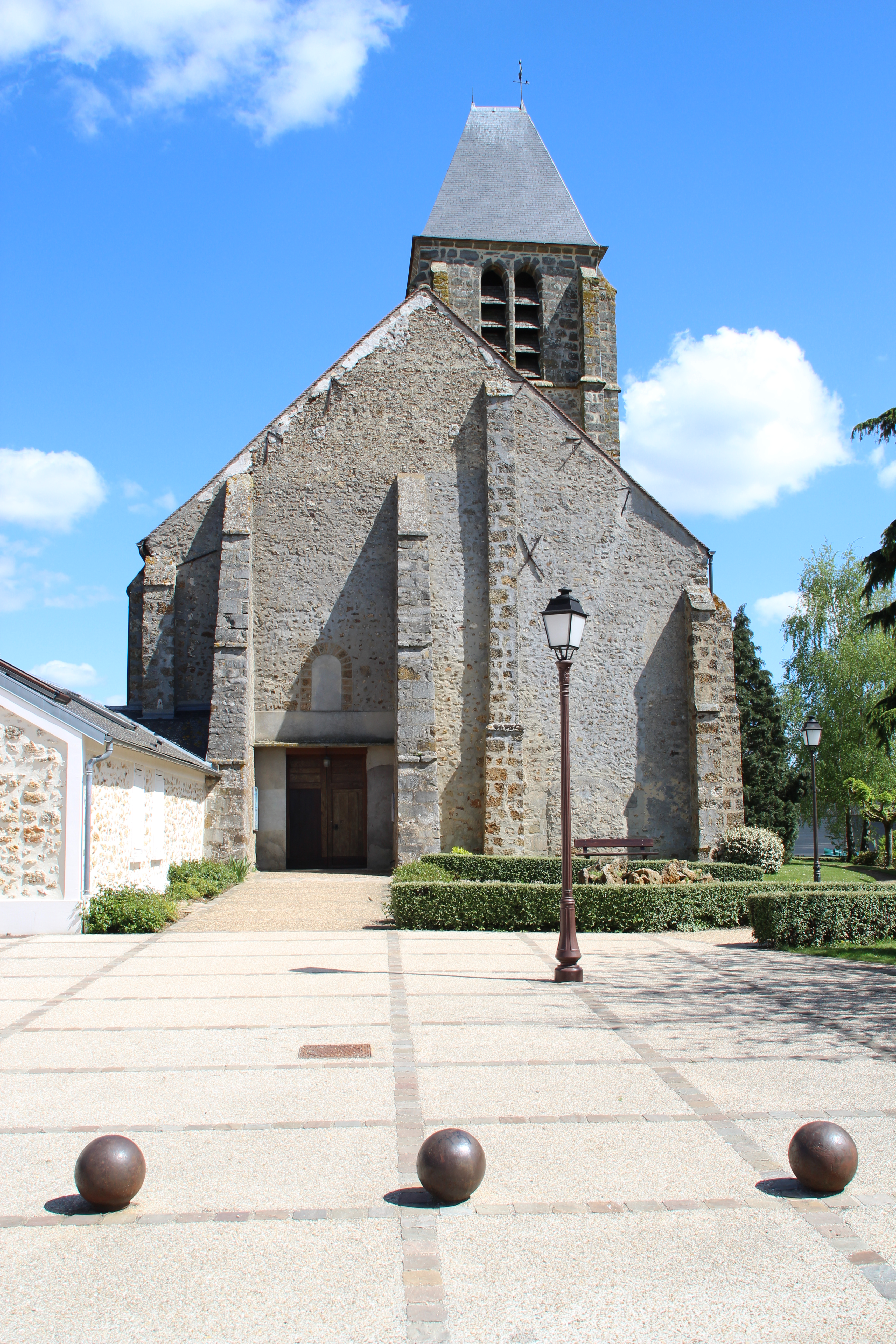 Saint-Germain church of Gometz-la-Ville, France. Object location48° 40′ 17.51″ N, 2° 07′ 31.62″ E